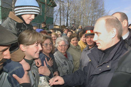 LENSK, YAKUTIA. Vladimir Putin with local residents in Lensk.